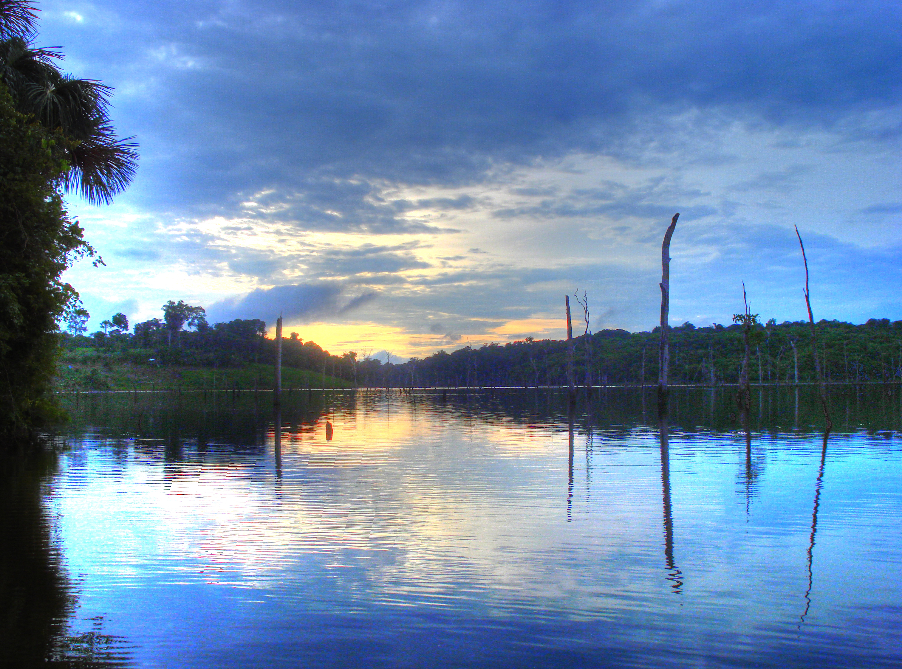 Balbina Dam (Usina Hidreletrica de Balbina), in Amazon, Brazil